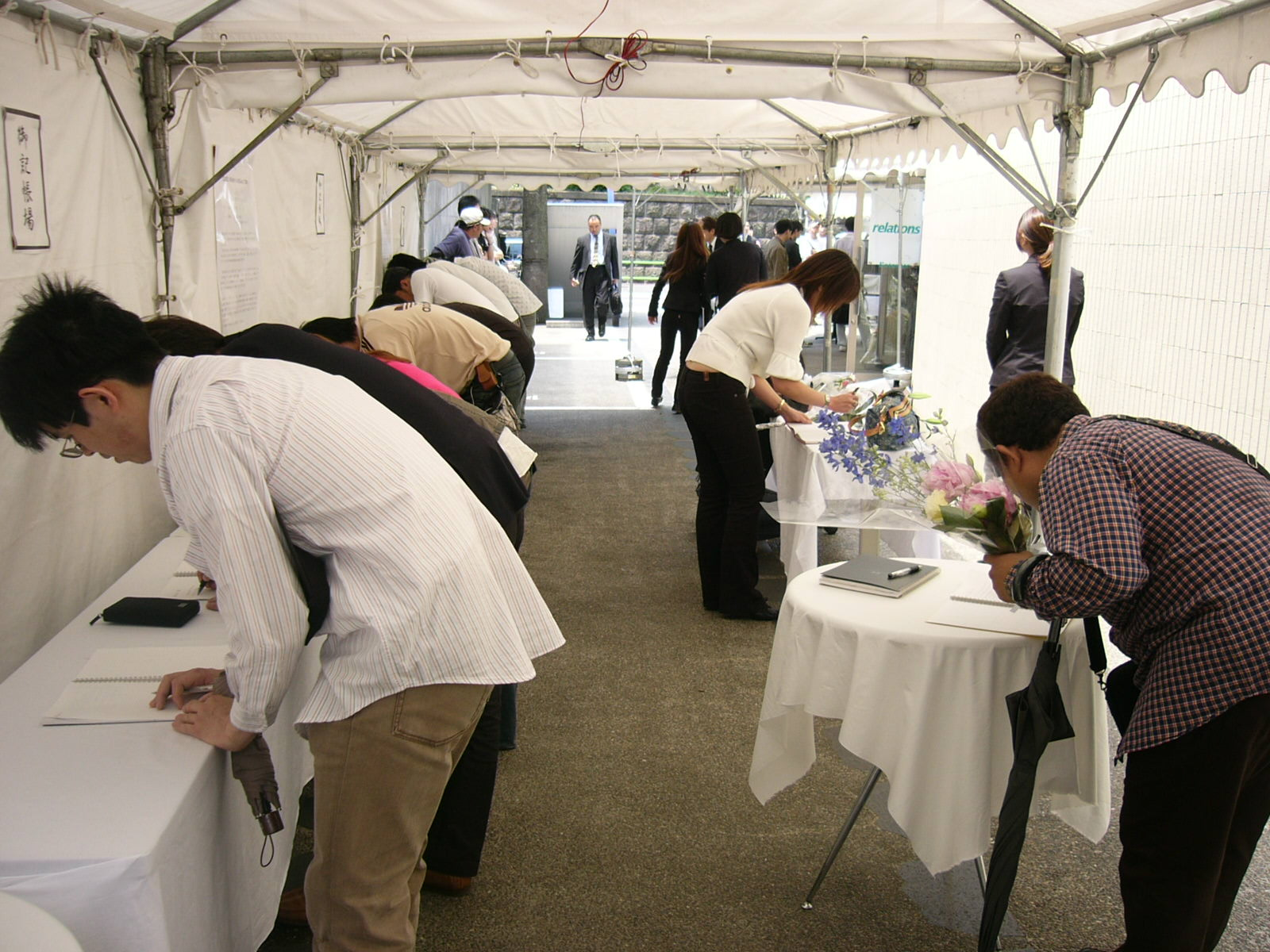 I took a lot of pictures about Zard vocalist Izumi Sakai in Zard's entertainment agency Relations in Roppongi, Tokyo, Japan on May 31, 2007 after she died on May 27, 2007.